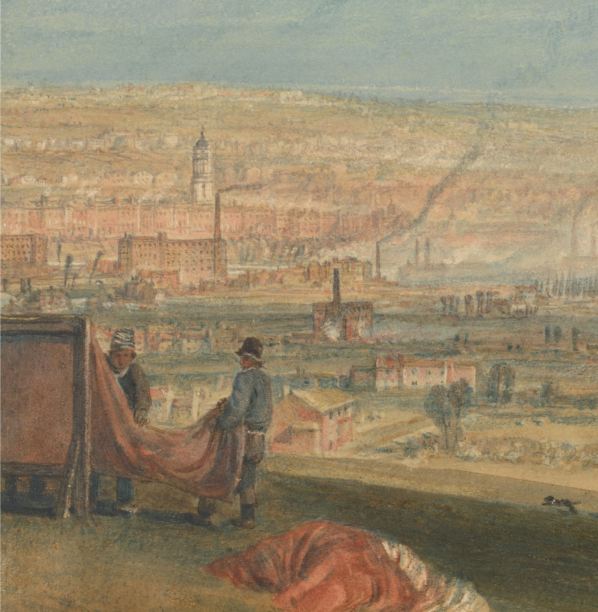 Detail of J. M. W. Turner's 1816 painting Leeds, showing Holbeck. Viewed looking northwards from Beeston Hill, the white tower belongs to St Paul's Church (demolished 1905) on the far side of the River Aire. Below the tower stands Marshall's Mill in Holbeck, and to its right, the chimney emitting black smoke, is Fenton and Murray’s foundry. Below the foundry, with a black chimney, stands Holbeck Moor Mill. The two-storey building below and to the right of the mill is Holbeck Workhouse. Identifications based on the Tate Gallery catalogue record for the drawing on which this painting is based: Matthew Imms, ‘Leeds from Beeston Hill 1816 by Joseph Mallord William Turner’, catalogue entry, July 2014, in David Blayney Brown (ed.), J.M.W. Turner: Sketchbooks, Drawings and Watercolours, Tate Research Publication, September 2014, accessed 29 April 2019.